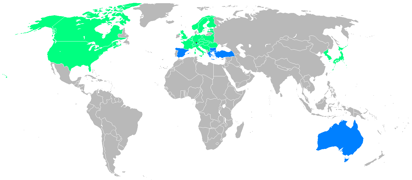 Countries which participated in the 1936 Winter Olympics, derived from blank world map. Blue = Participating for the first time Green = Have previously participated. Yellow square is host city (Berlin).